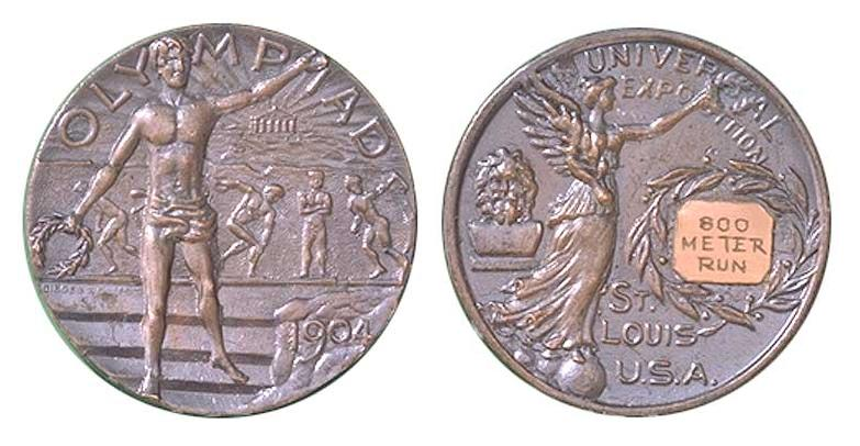 Silver medal of 1904 Summer Olympic for 800 m running. Cast by Dieges & Clust.